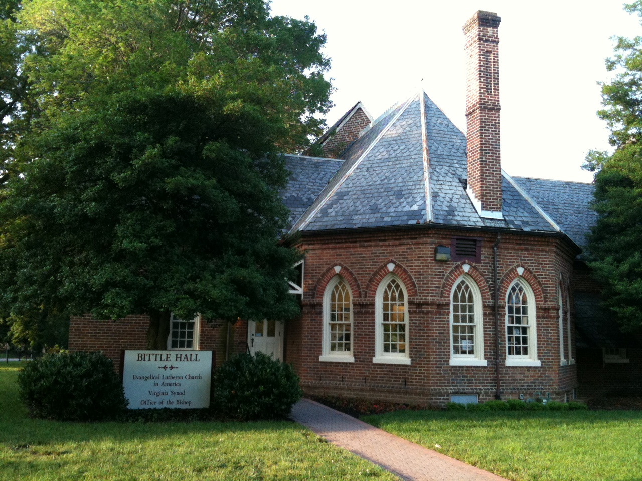 Office of the Bishop, Virginia Synod of the Evangelical Lutheran Church in America